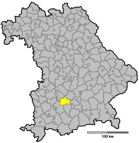 locator map of the former (1970) districts (Landkreise) in Bavaria, Germany